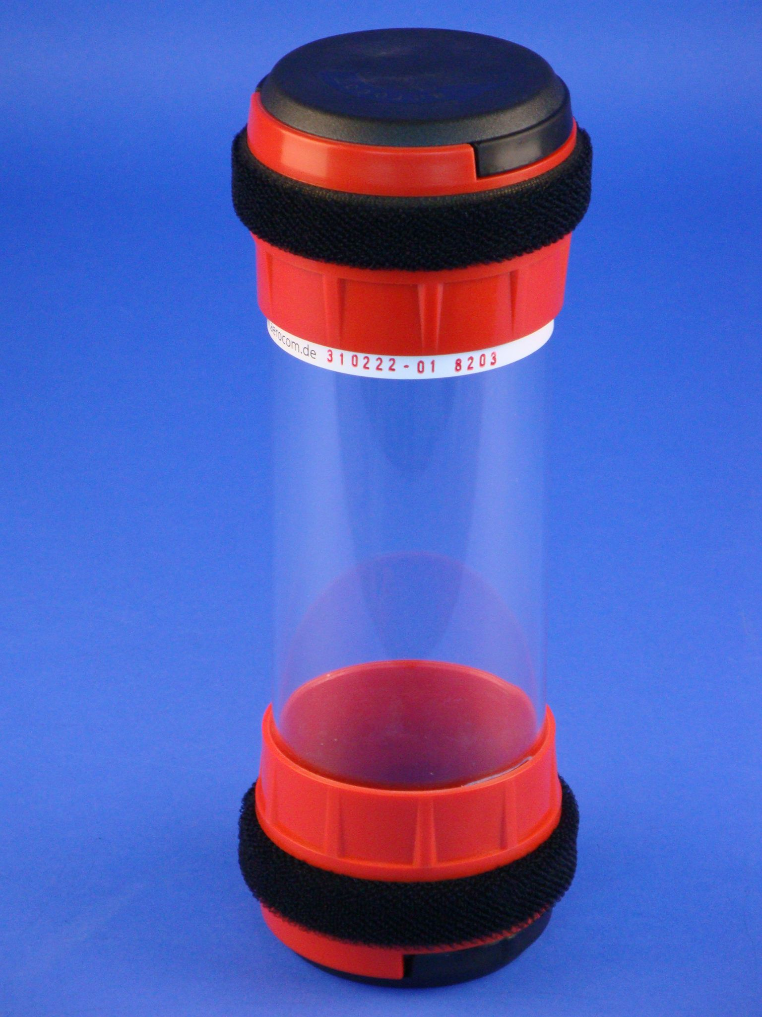 carrier of a pneumatic tube system